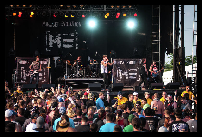 Mindset Evolution playing live at rocklahoma